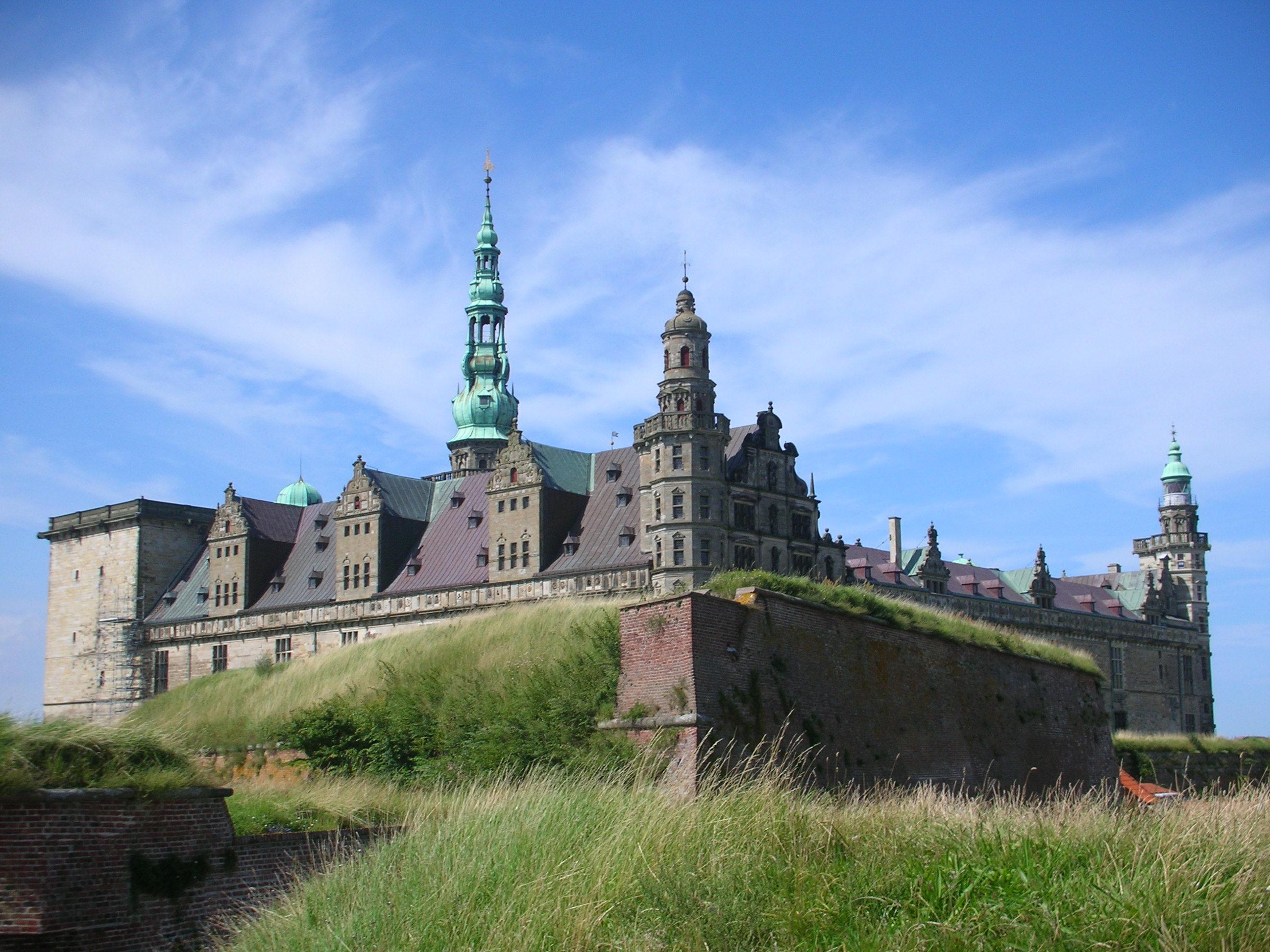 Kronborg Castle in Helsingor ( Denmark)